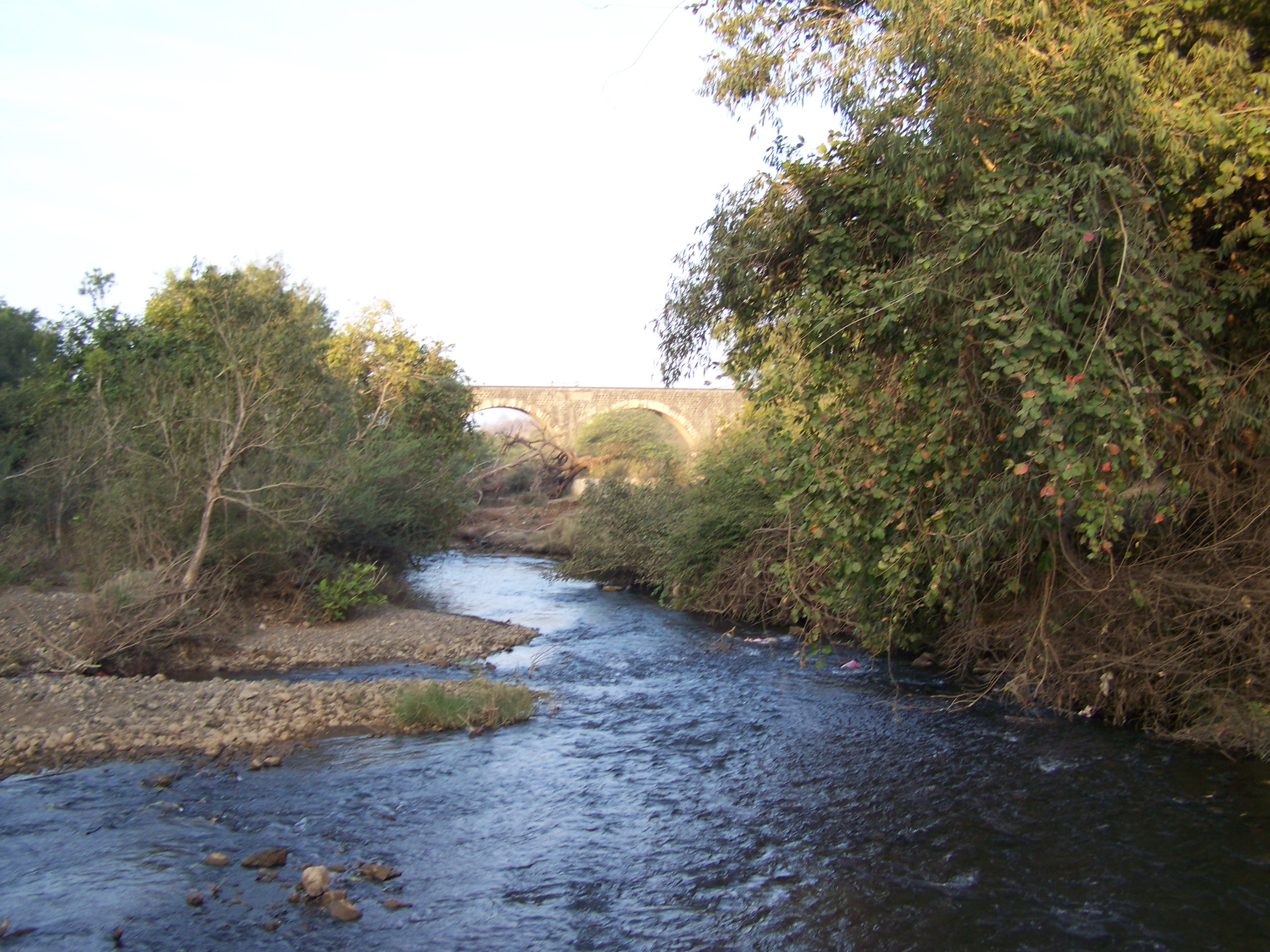 Picture taken from the Safari Jeep crossing the Causeway on State Highway 111, the river Hiran near Sasan Gir, , Gujarat, India